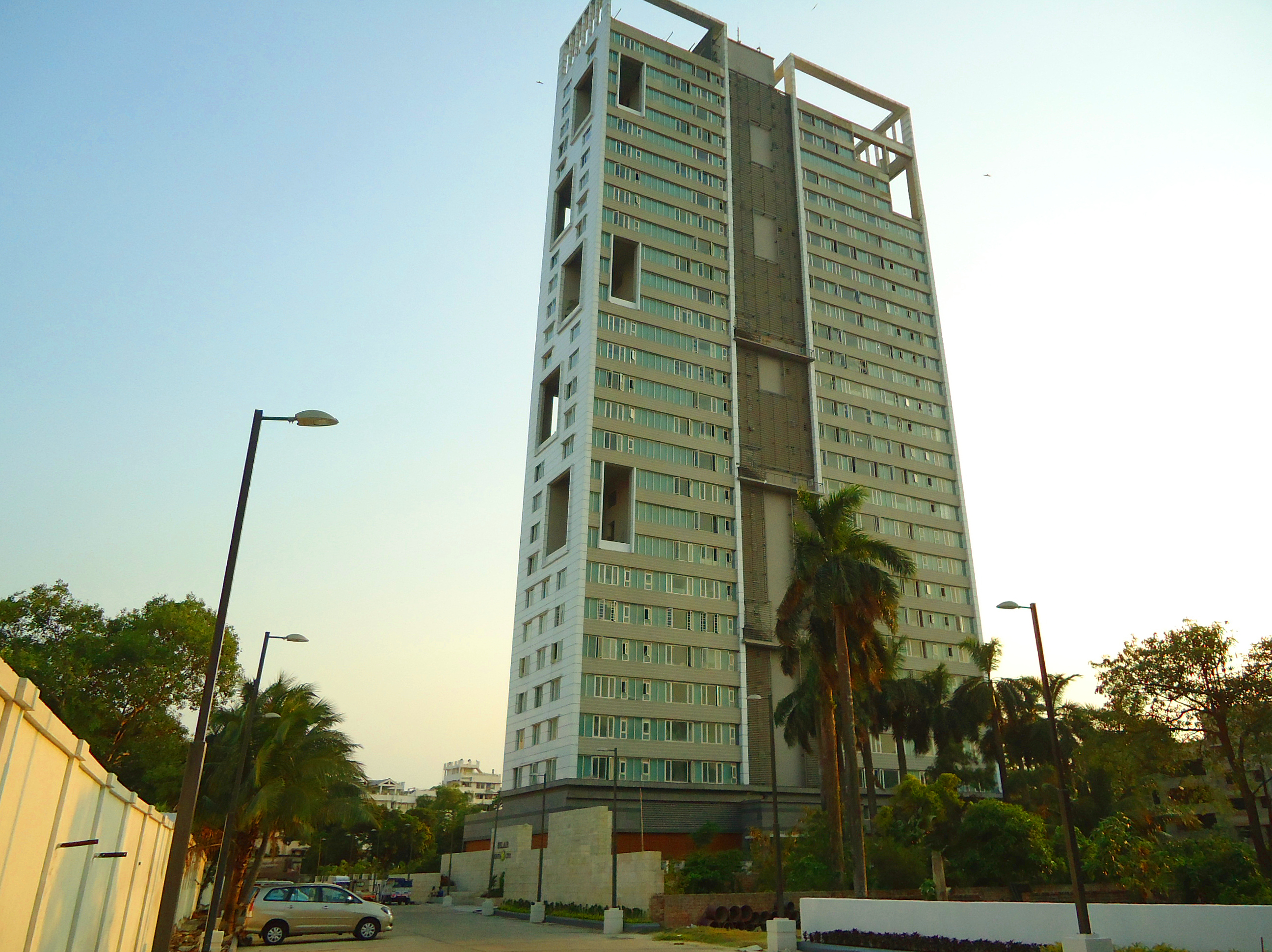 'Bel Air' Apartments at Alipore